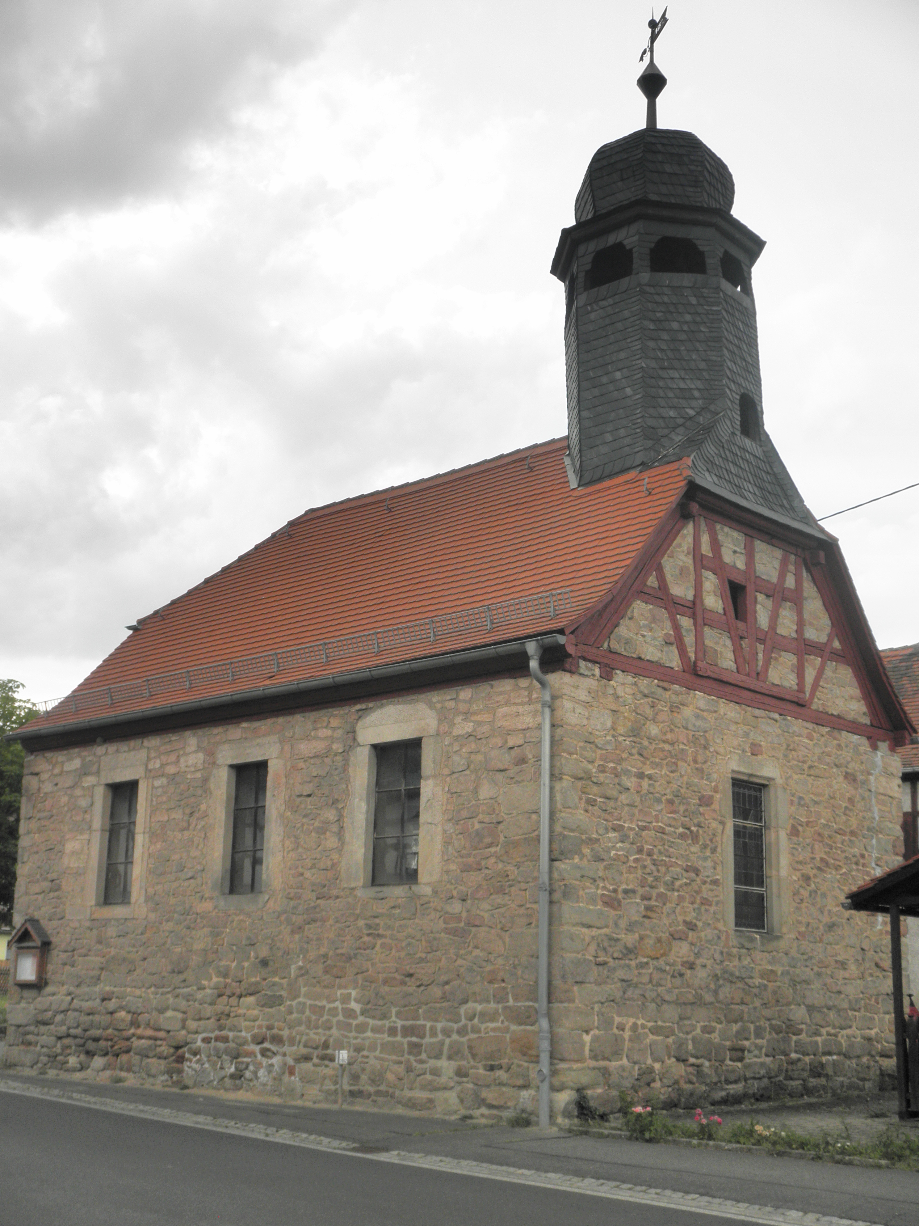 Church in Erdmannsdorf in Thuringia